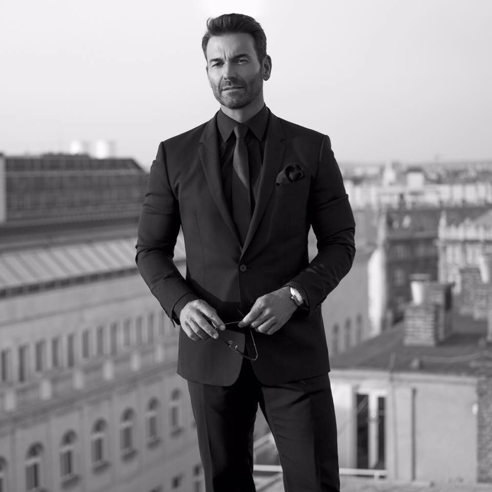 Csipak Péter a Fashion Street alapítója